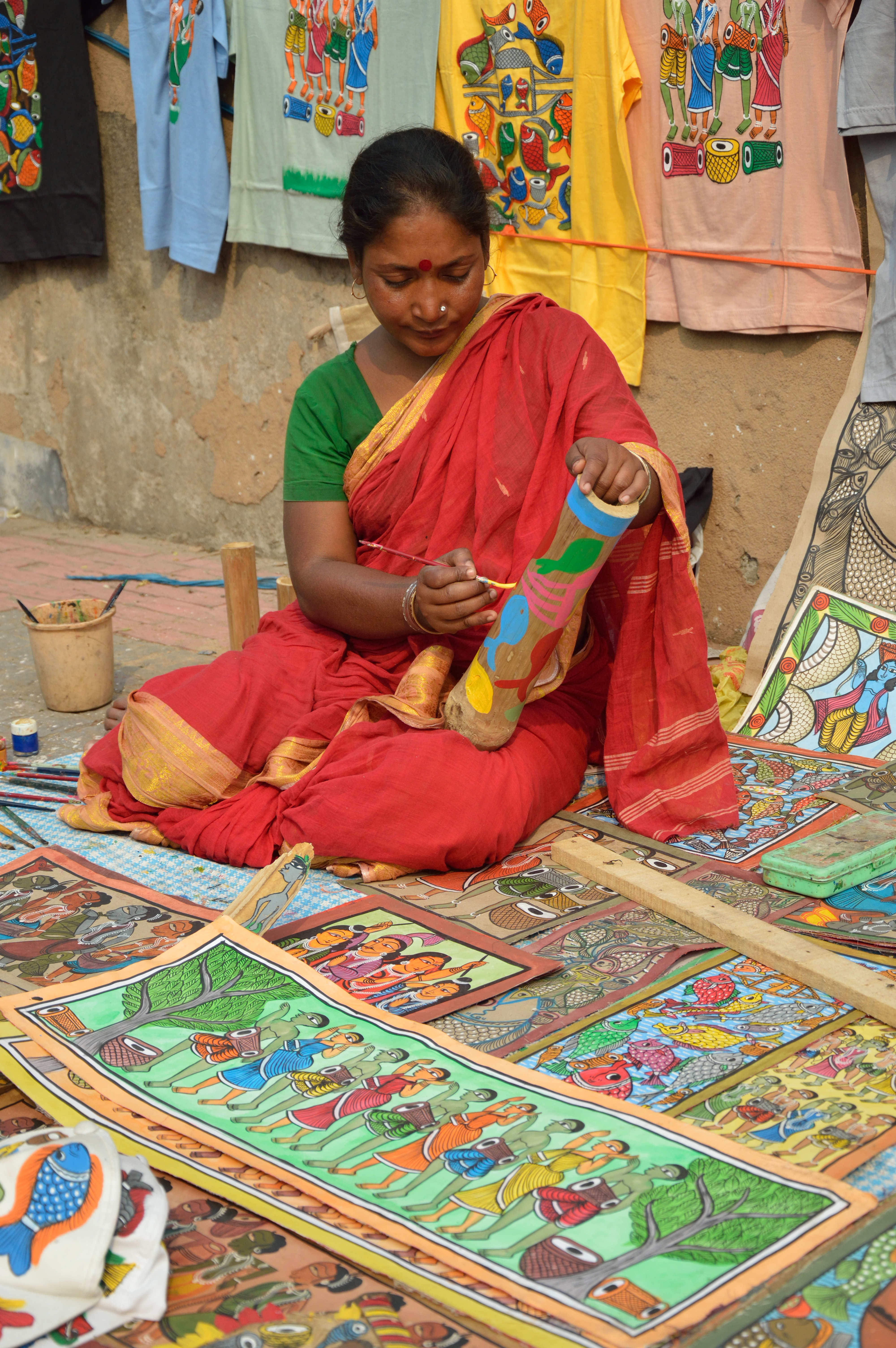 The International Kolkata Book Fair (Old name: Calcutta Book Fair in English, and officially Kolkata Boimela or Kolkata Pustakmela in romanized Bengali), is a winter fair in Kolkata. It is a unique book fair in the sense of not being a trade fair - the book fair is primarily for the general public rather than whole-sale distributors. It is the world's largest non-trade book fair, Asia's largest book fair and the most attended book fair in the world. The fair took place at ‘Milan Mela’ ground, opposite of ‘Science City’, Kolkata.